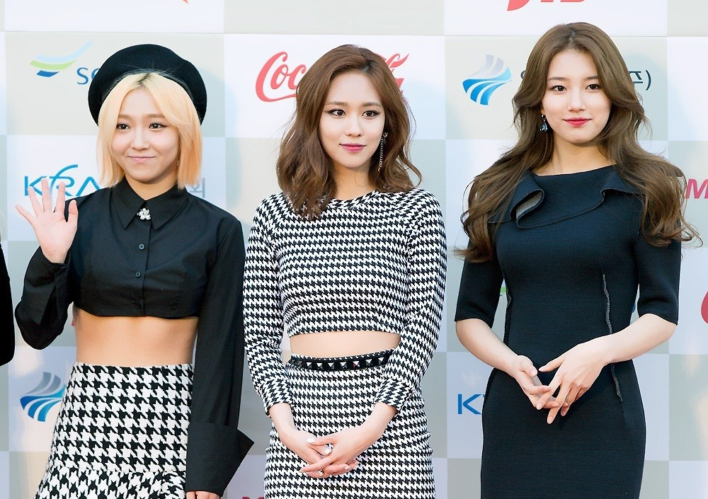 Miss A at 2014 K-Pop Awards red carpet